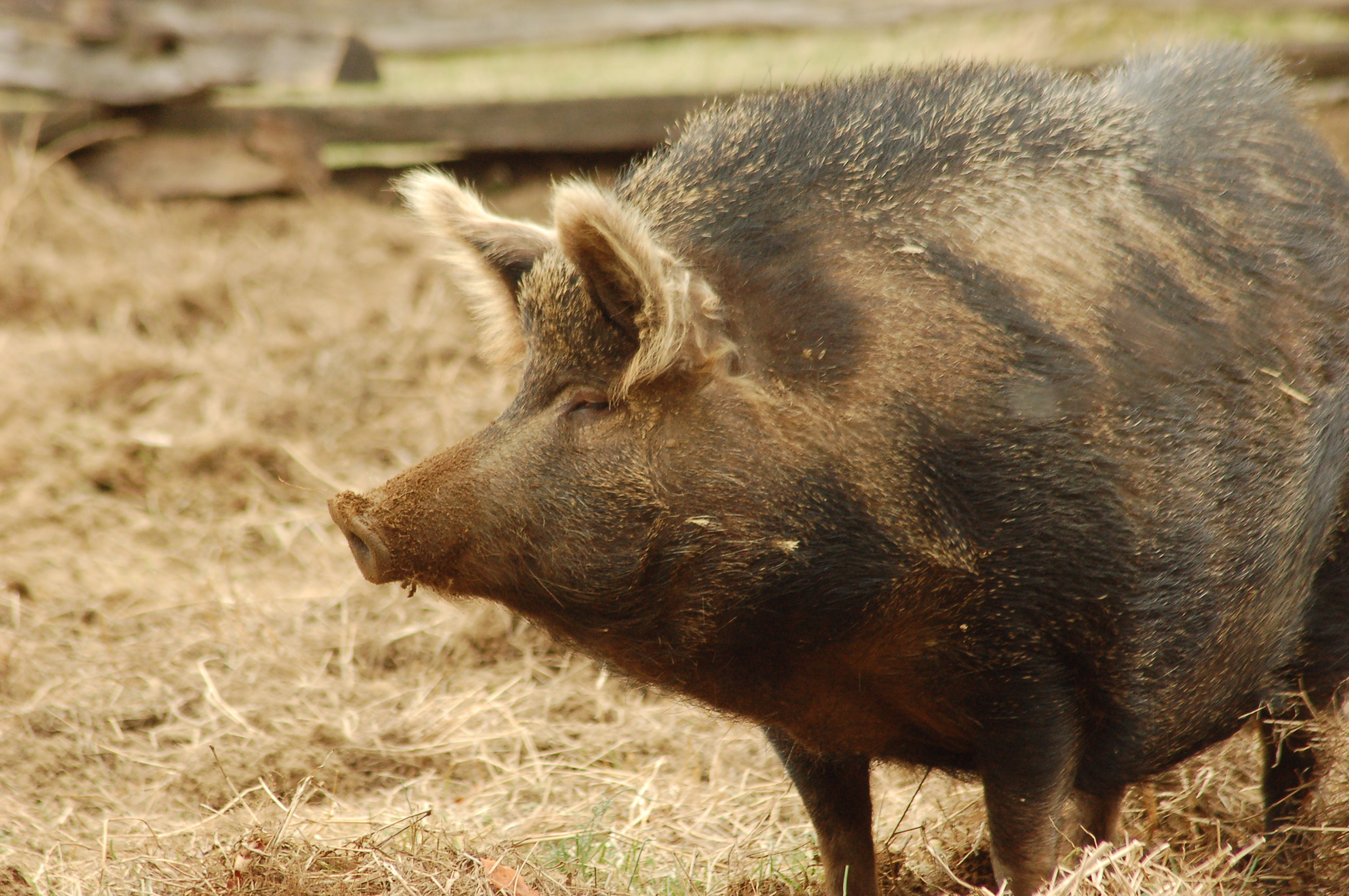 An Ossabaw Island hog, a once-feral breed.